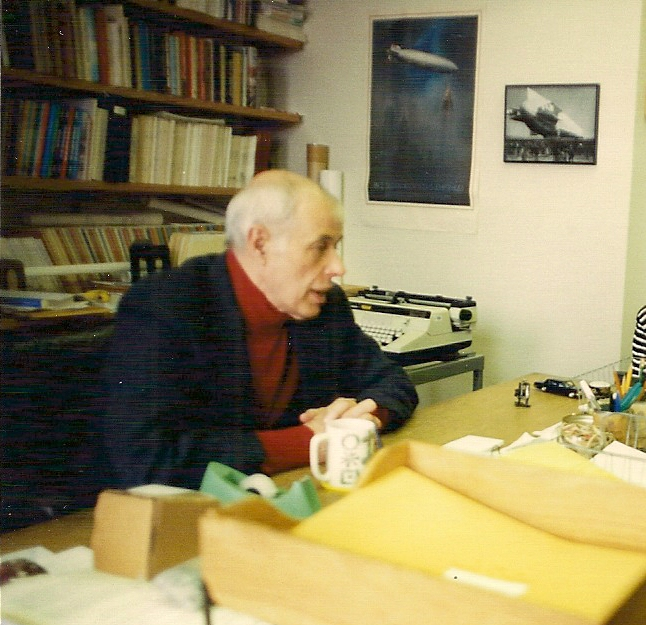 Warner R. Schilling, James T. Shotwell Professor of International Relations at Columbia University, in his office on the 13th floor of the International Affairs Building.